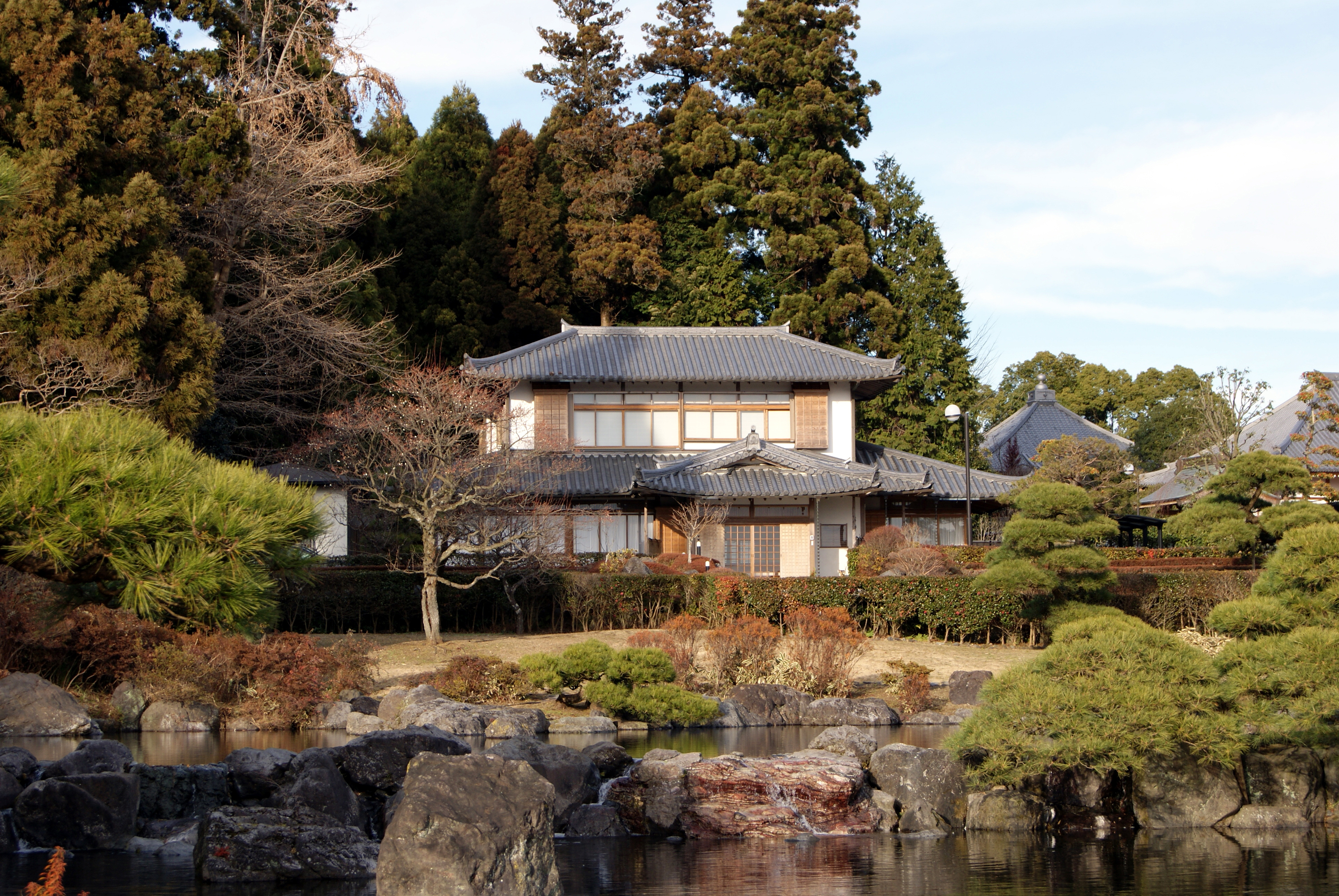 Renyō-an of Taiseki-ji.